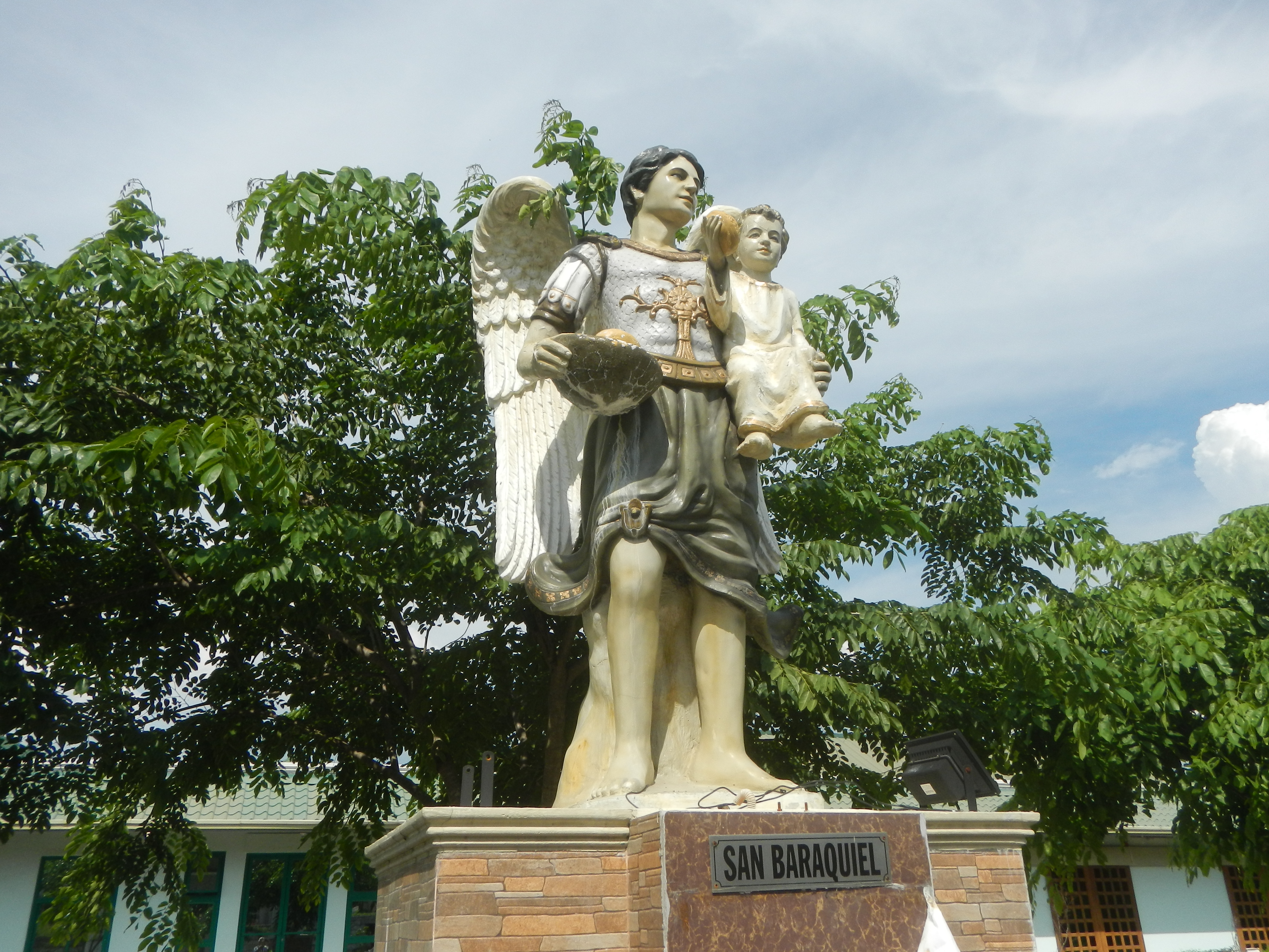 Statues of archangels in the Holy Angels Parish Church (San Jose, Plaridel, Bulacan) San Jose-Bulihan, Plaridel, Bulacan Provincial Road Construction of the Holy Angels Parish Church (San Jose, Plaridel, Bulacan) in Barangays, San Jose 14°53'34"N 120°53'58"E Bulihan 14°52'29"N 120°54'4"E Plaridel, Bulacan bounded by Barangays Pulong Gubat 14°51'43"N 120°54'37"E Santol 14°51'5"N 120°54'48"E, Balagtas, Bulacan, along the Santol-Dalig, Balagtas, Bulacan Provincial Road) (in and from C.L. Hilario Street corner General Alejo Santos Highway, Bustos-Angat, Bulacan accessed from Doña Remedios Trinidad Highway, or Maharlika Highway (Cagayan Valley Road, San Rafael-San Ildefonso, Bulacan section) (Note: Judge Florentino Floro, the owner, to repeat, Donor Florentino Floro of all these photos hereby donate gratuitously, freely and unconditionally all these photos to and for Wikimedia Commons, exclusively, for public use of the public domain, and again without any condition whatsoever).